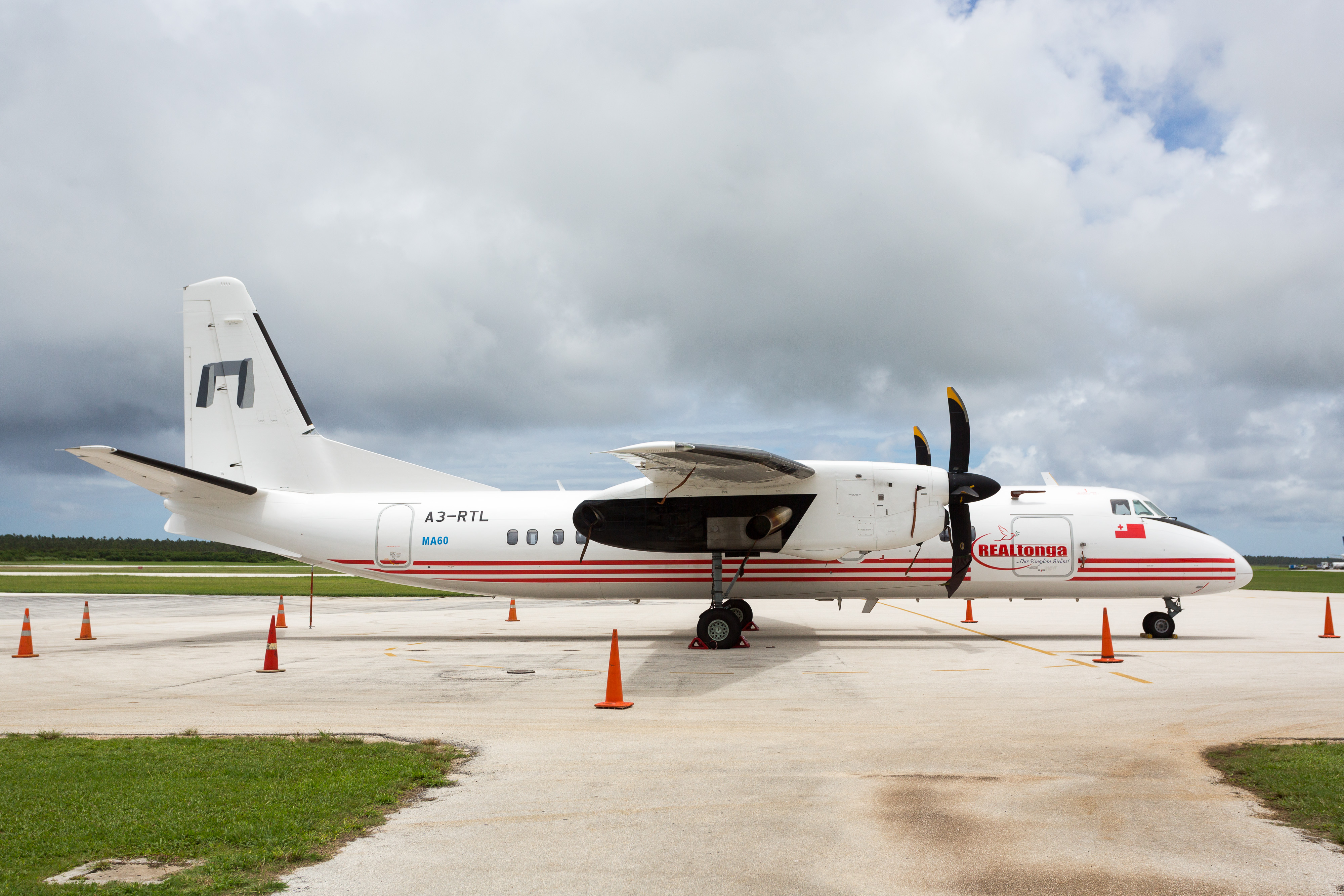 REALtonga's Xian MA60, Fua’amotu International Airport, Tongatapu, Tonga